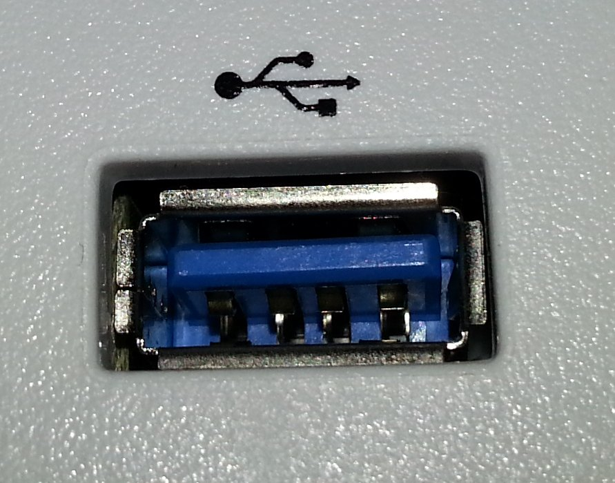 A blue Standard-A USB connector on a Sagemcom F@ST 3864OP ADSL modem router without USB 3.0 contacts fitted.